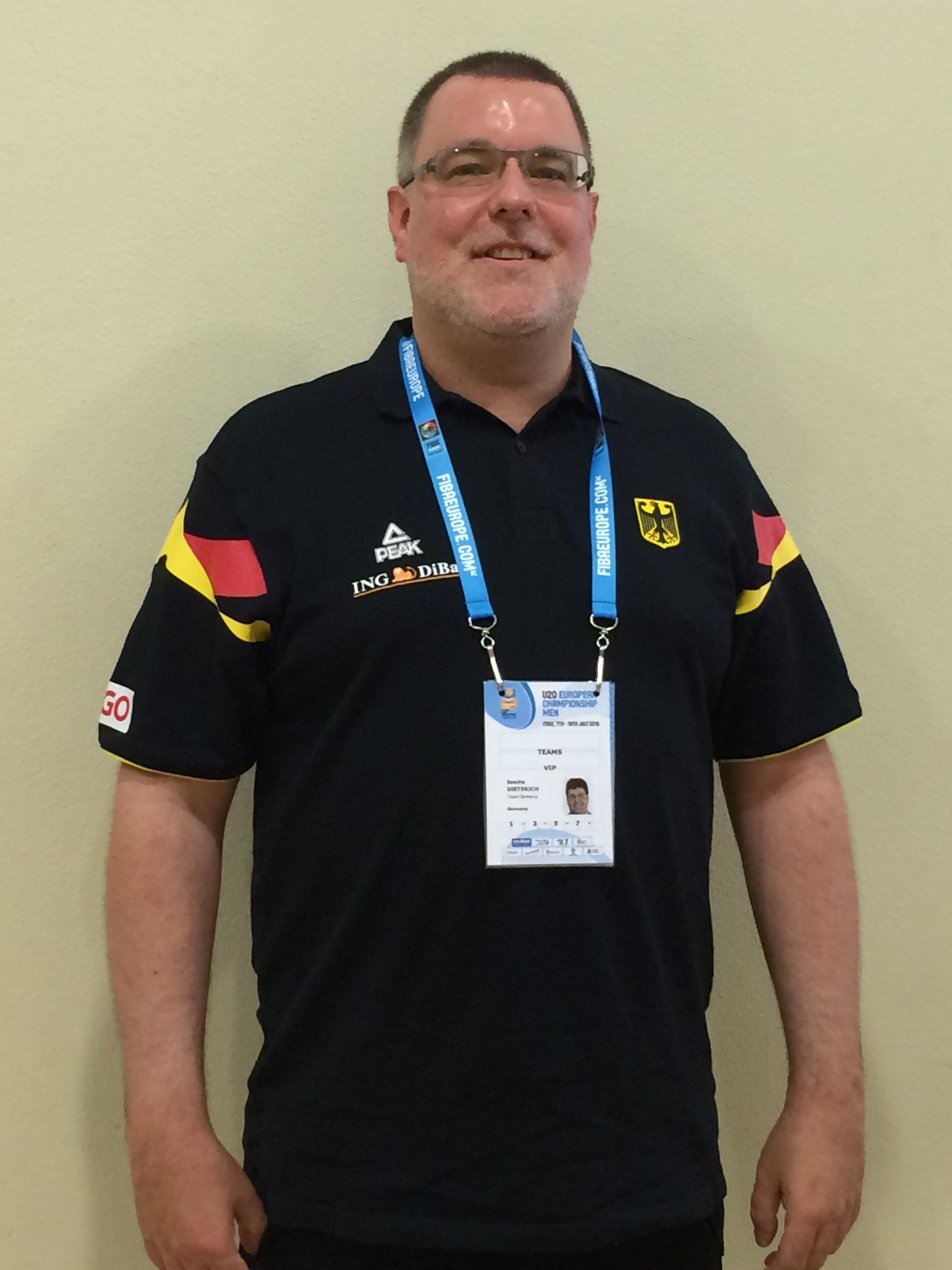 Head of Delegation 2015